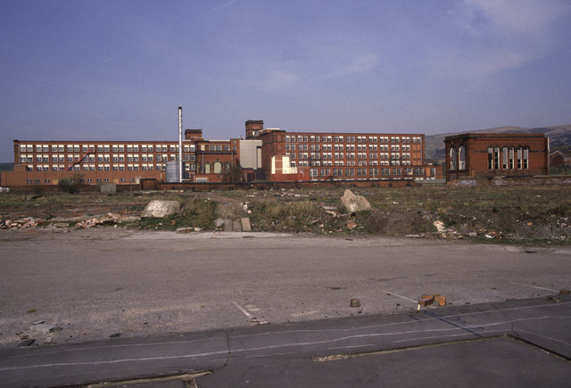 Shaw NDC, also known as the Lily Mills, in Shaw and Crompton, Greater Manchester, England.